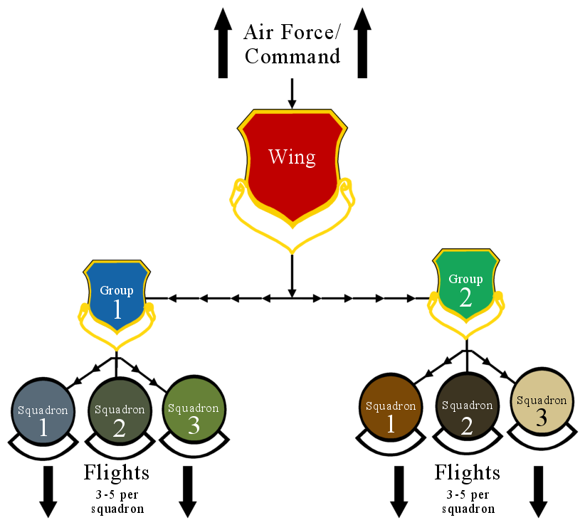 Visual aid to help readers understand the difference between a Squadron/Group/Wing commander re: Featured Article on Wikipedia